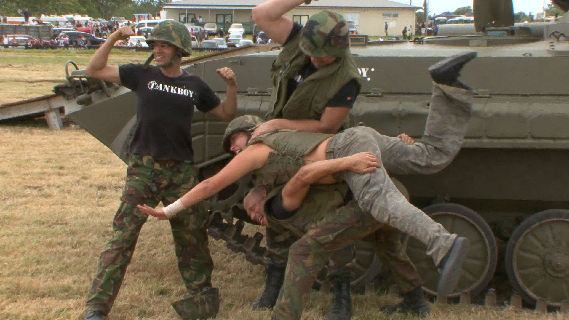 Tankboy Crew at the Kumeu Car Show 2007